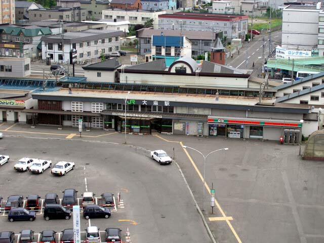 Oasa Station in Hakodate Main Line, Japan